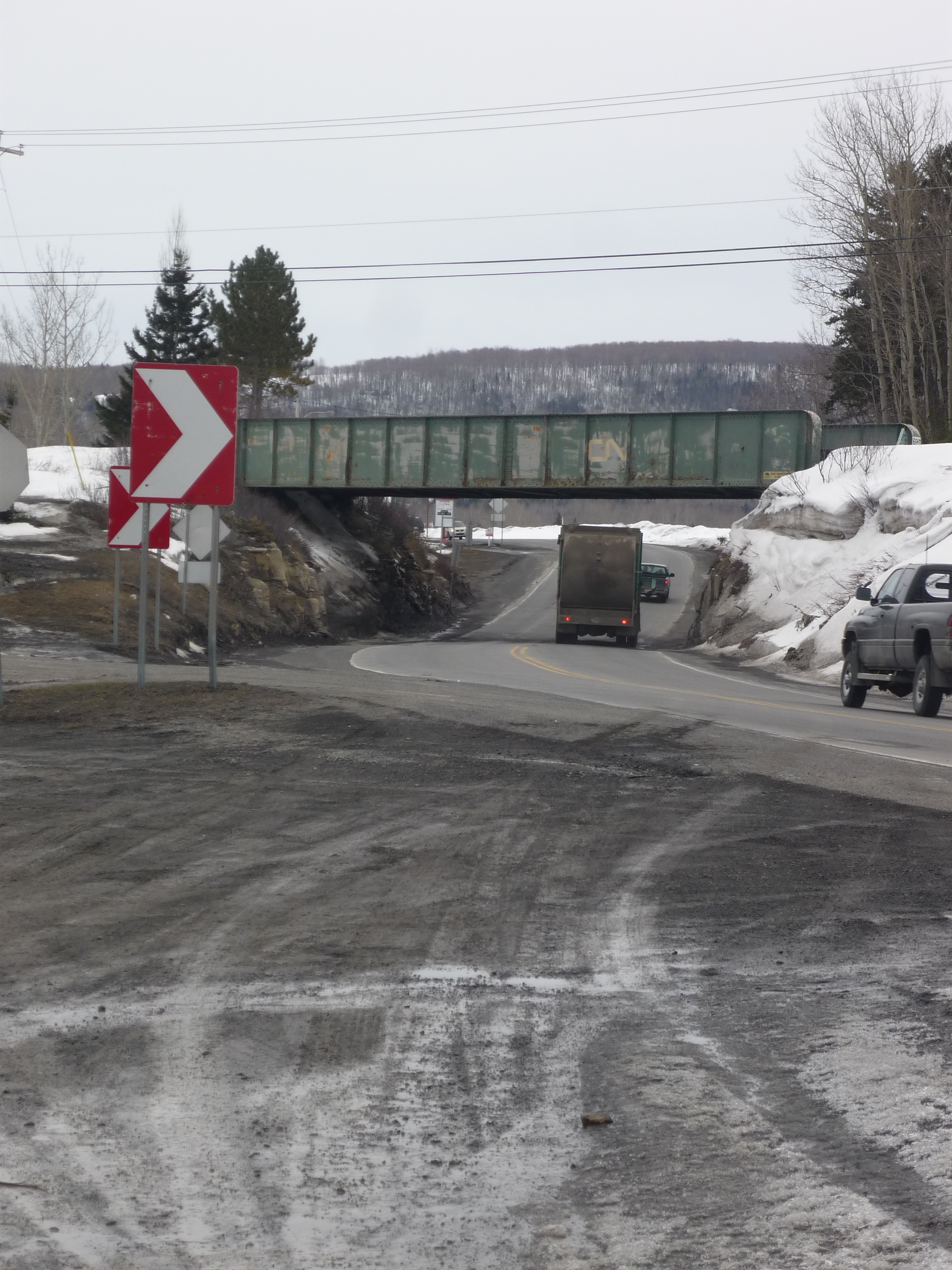 Viaduct of railroad over Road 132 at Val-Brillant, Quebec